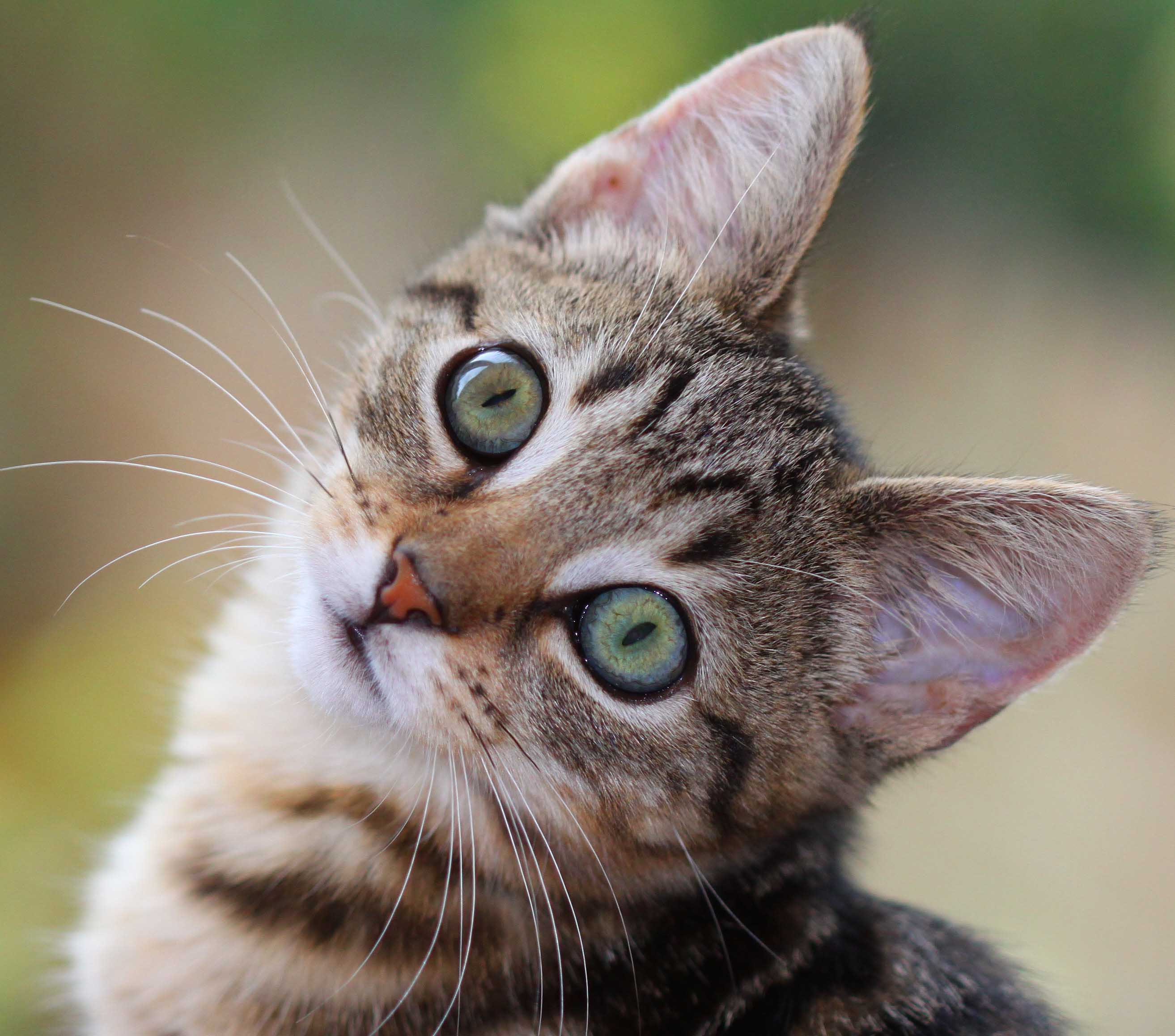 A kitten with green eyes staring into the distance.